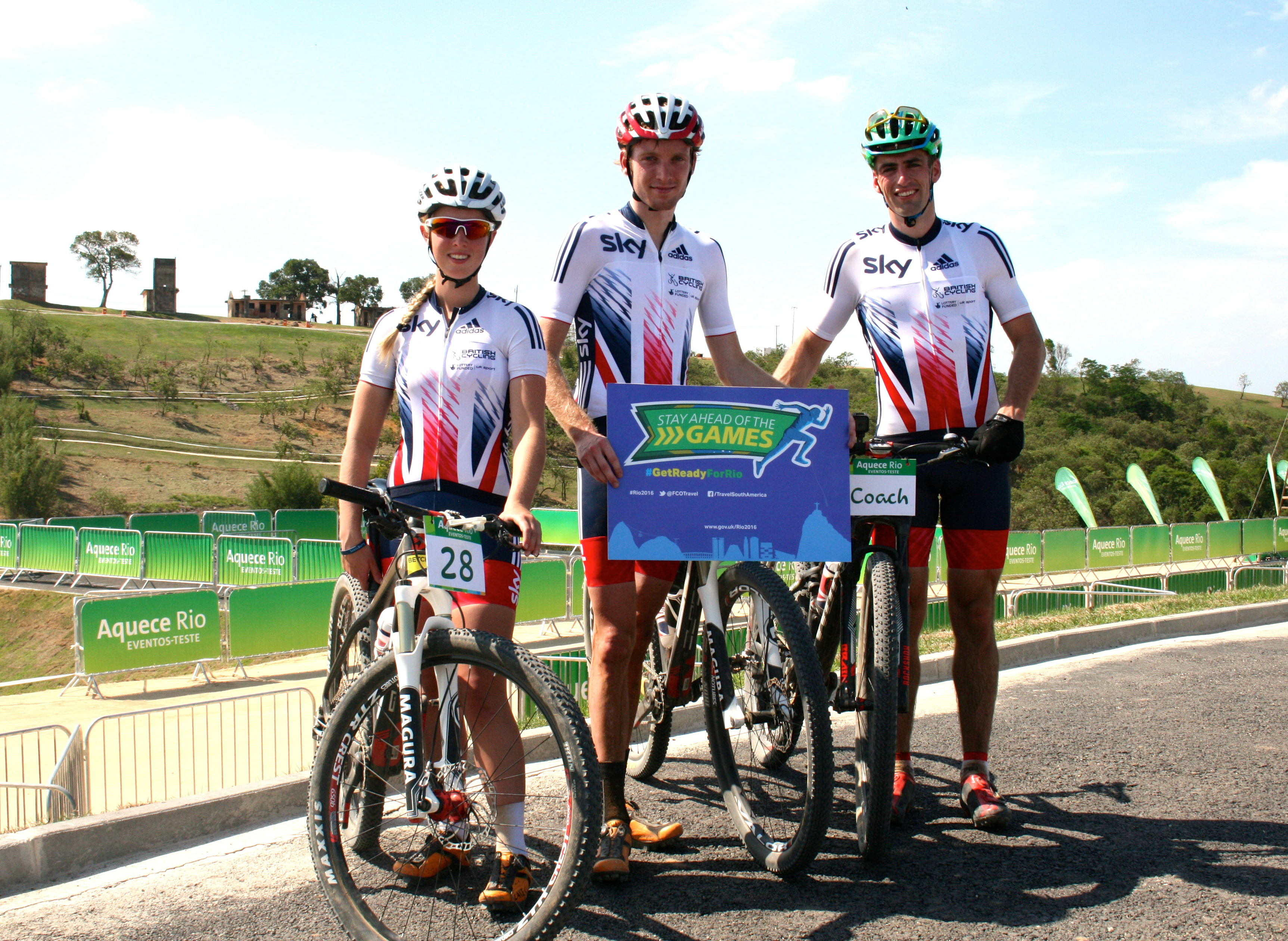 Members of the Team GB mountain bike team supporting the Foreign Office's travel advice campaign 'Stay Ahead of the Games' which provides advice and guidance to fans travelling to the Olympic and Paralympic Games in Rio 2016. L-R: Alice Barnes, Grant Ferguson and Phil Pearce. At the MTB Olympic Track, Rio 2016 Deodoro Olympic Park. For GetReadyForRio